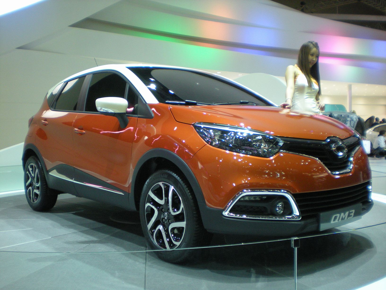 RENAULT SAMSUNG QM3